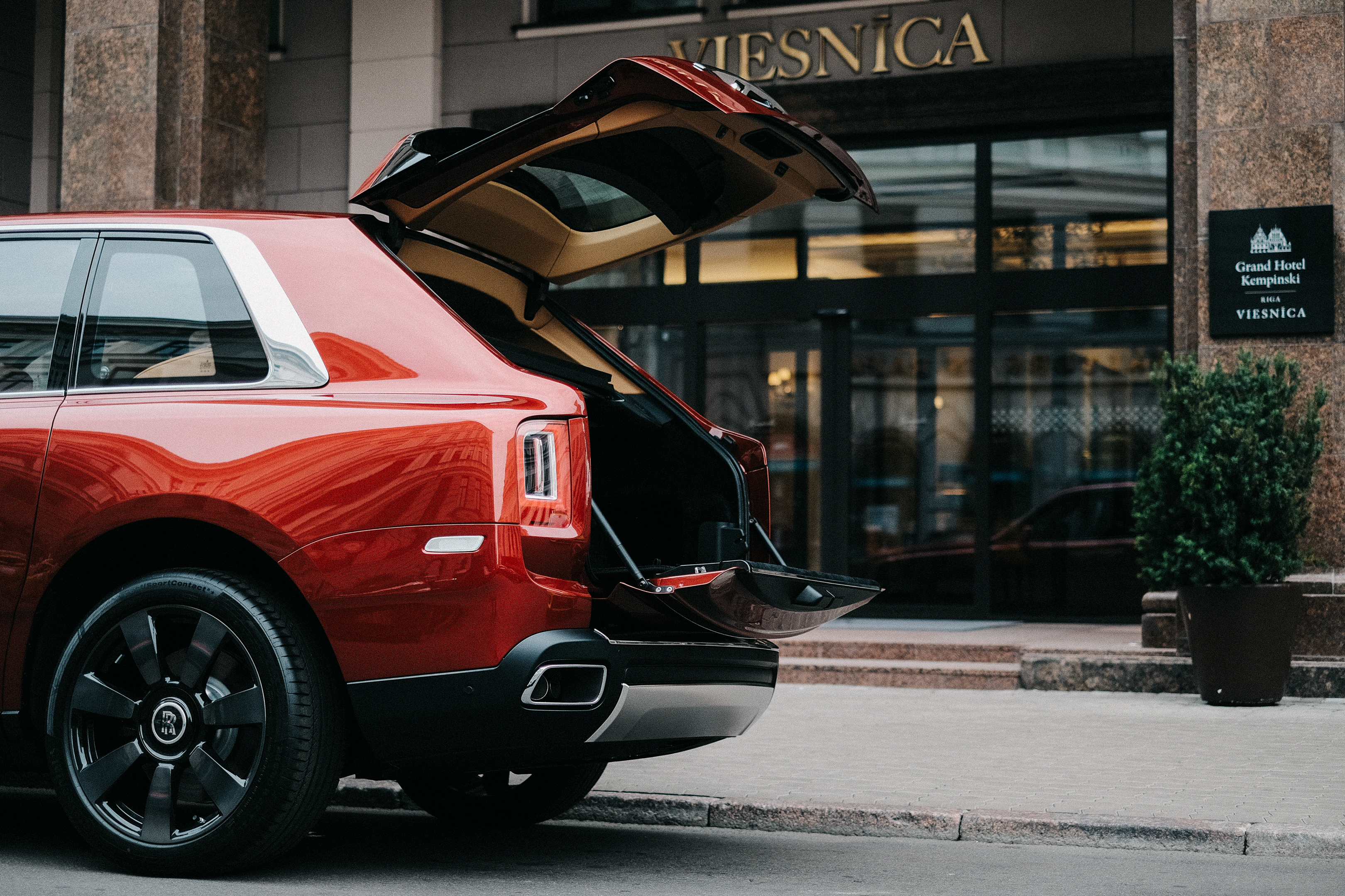 2018 Rolls Royce Cullinan with the rear hatch open